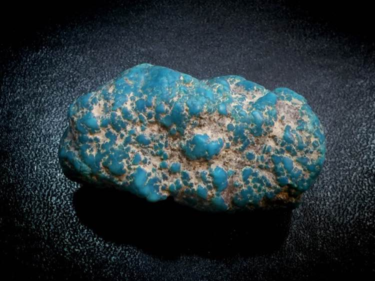 hahaha